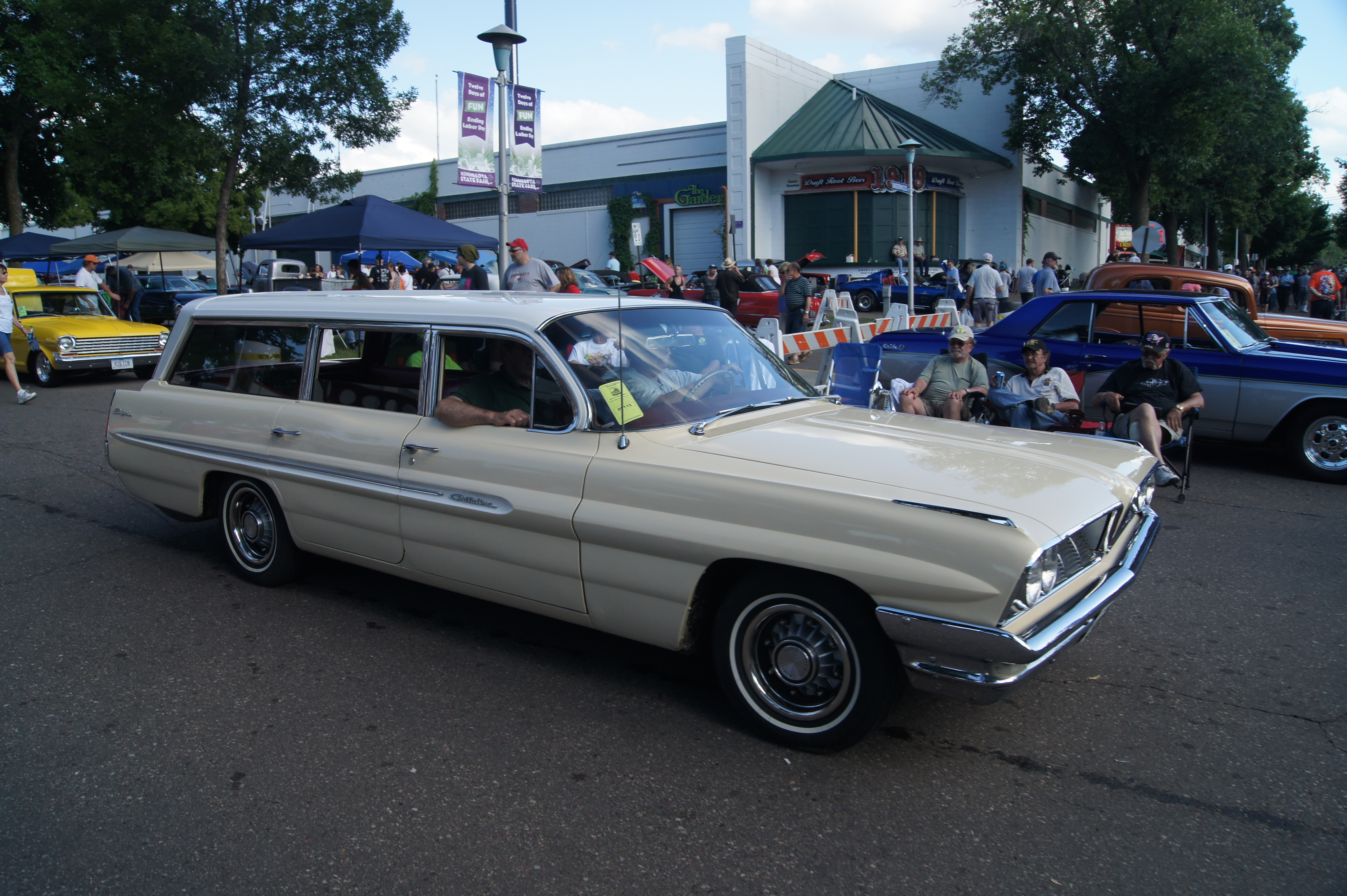 MSRA “BACK TO THE 50′s” 42nd Annual June 19-21, 2015 State Fairgrounds St. Paul Minnesota Click here for more car pictures at my Flickr site.